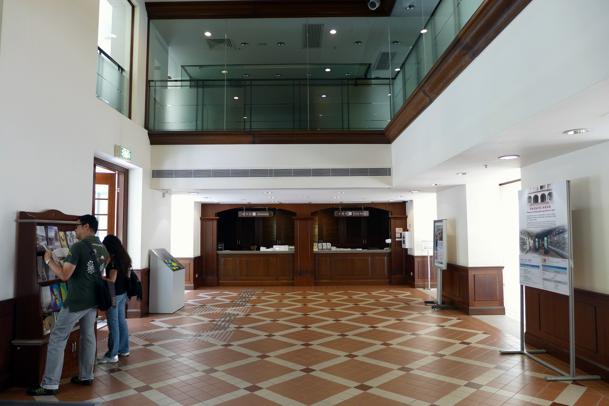 HK Hertiage Discovery Centre Lobby